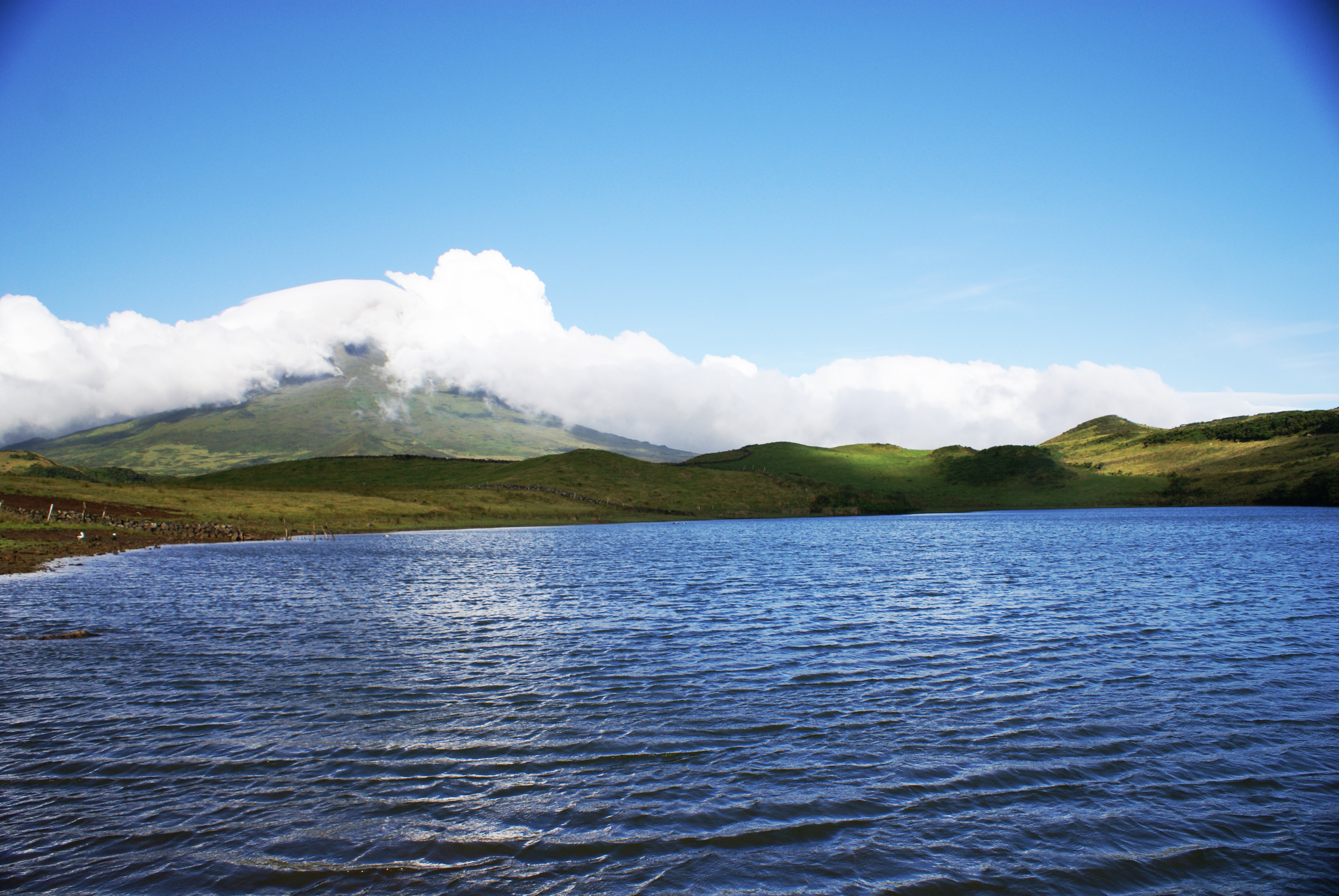 Lagoa do Capitão, with the mountain of Pico in the distance, São Roque do Pico, island of Pico, Azores (Portugal)